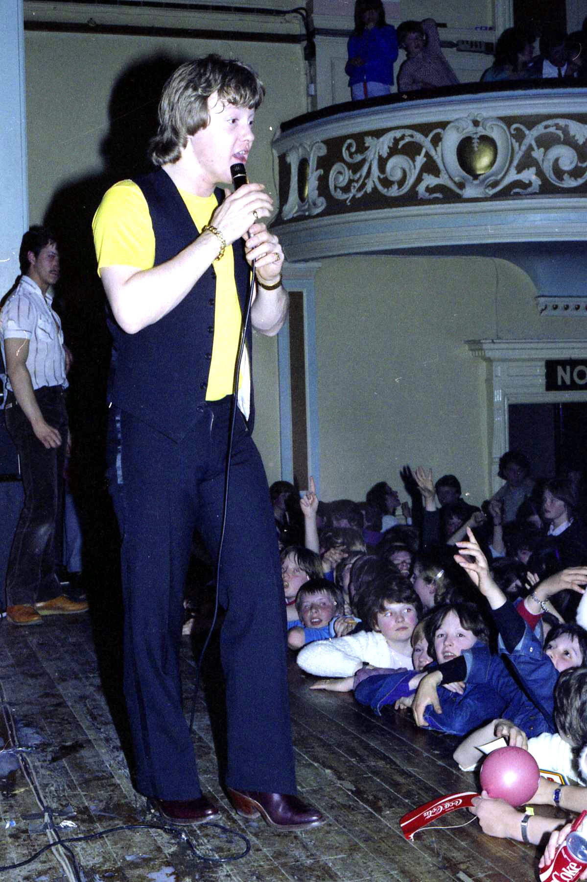 Keith Chegwin at a stage of the Ossett Town Hall (Ossett, Yorkshire, England)